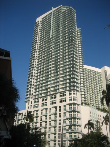 View of Quantum on the Bay from the outside